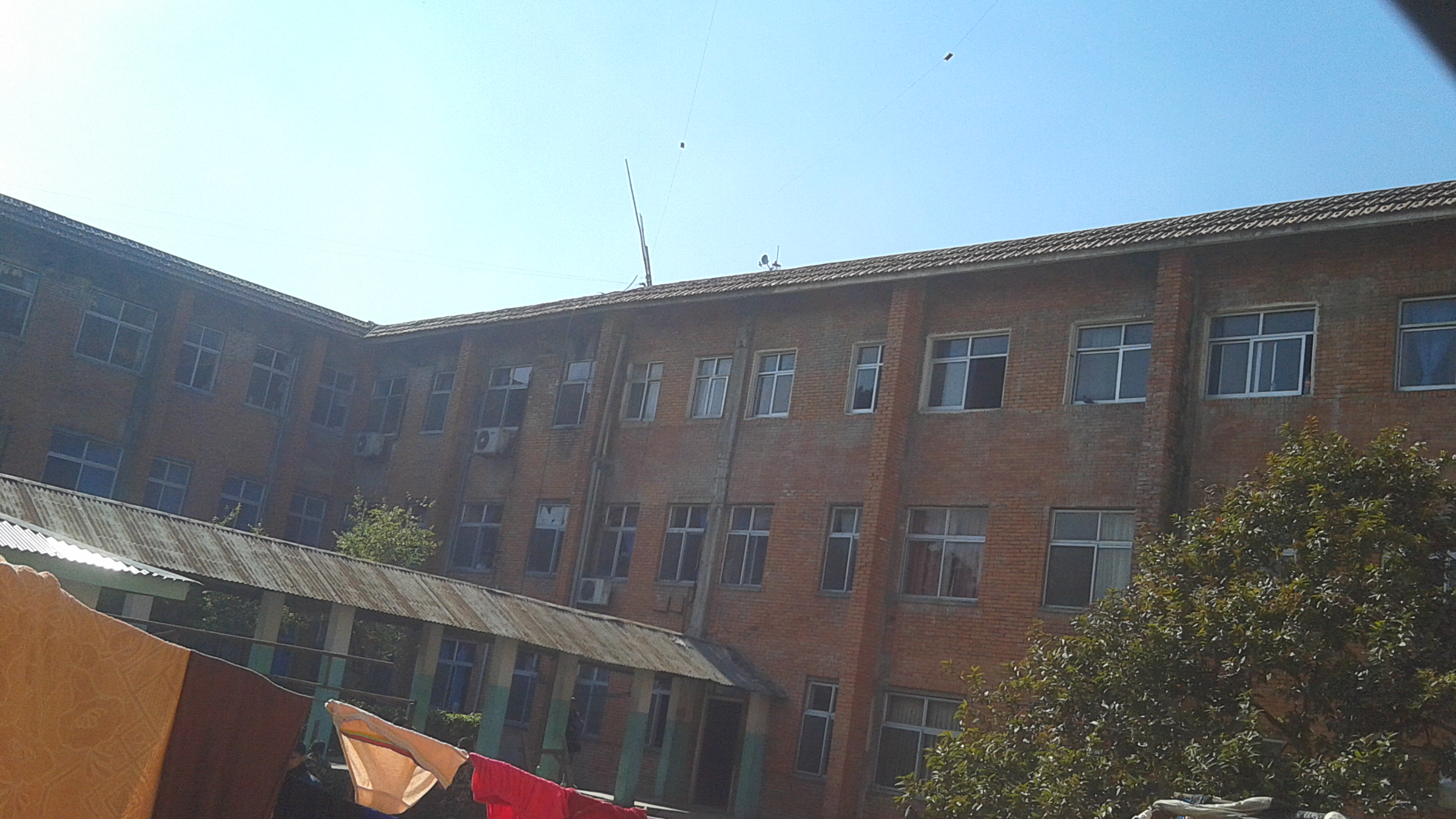 बिरेन्द्र अस्पताल नेपालको काठमाण्डौमा अवस्थित छ।